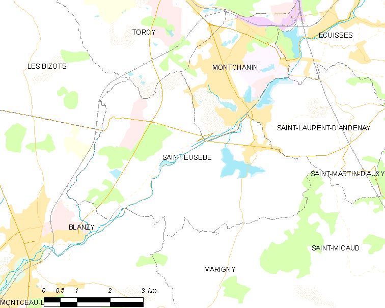 Map of French municipality